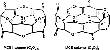 it is a 6- or 8-ring macrocyclic polymer of carbon suboxide that was found in living organisms and is acting as an endogenous digoxin-like Na+/K+-ATP-ase and Ca-dependent ATP-ase inhibitor, a natriuretic and an antihypertensive